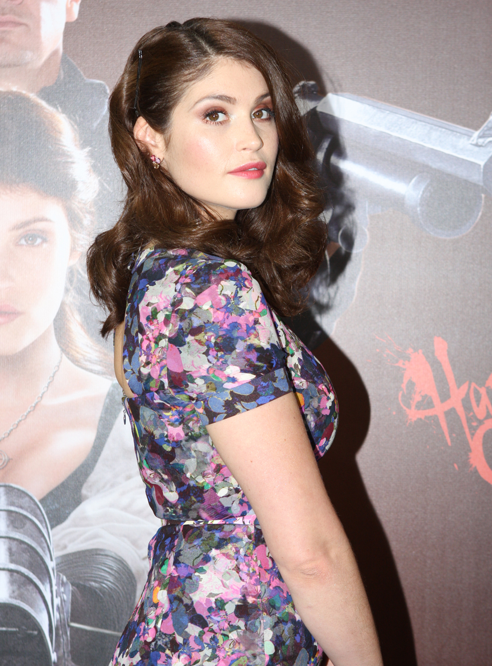 Gemma Arterton at the Hansel & Gretel: Witch Hunters 3D movie premiere; Sydney, Australia.